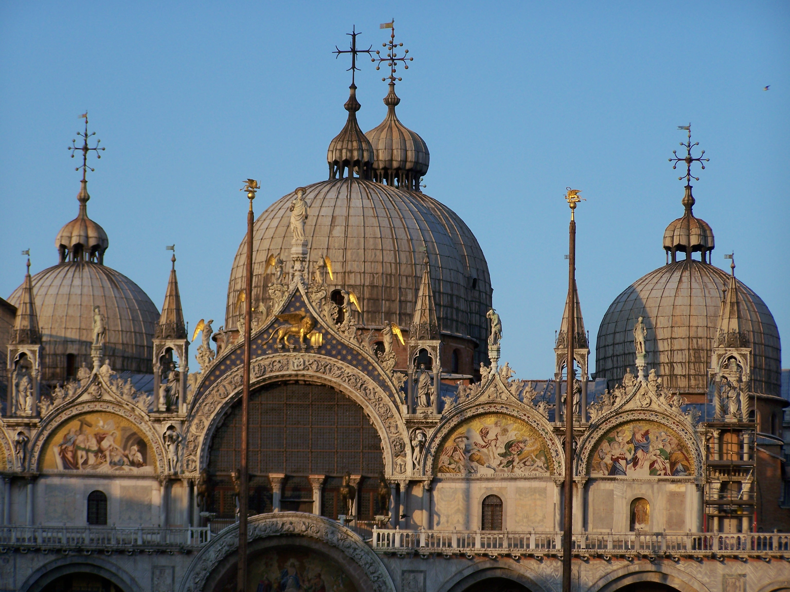 Domes of the Basilica San Marco, Venice, Italy.